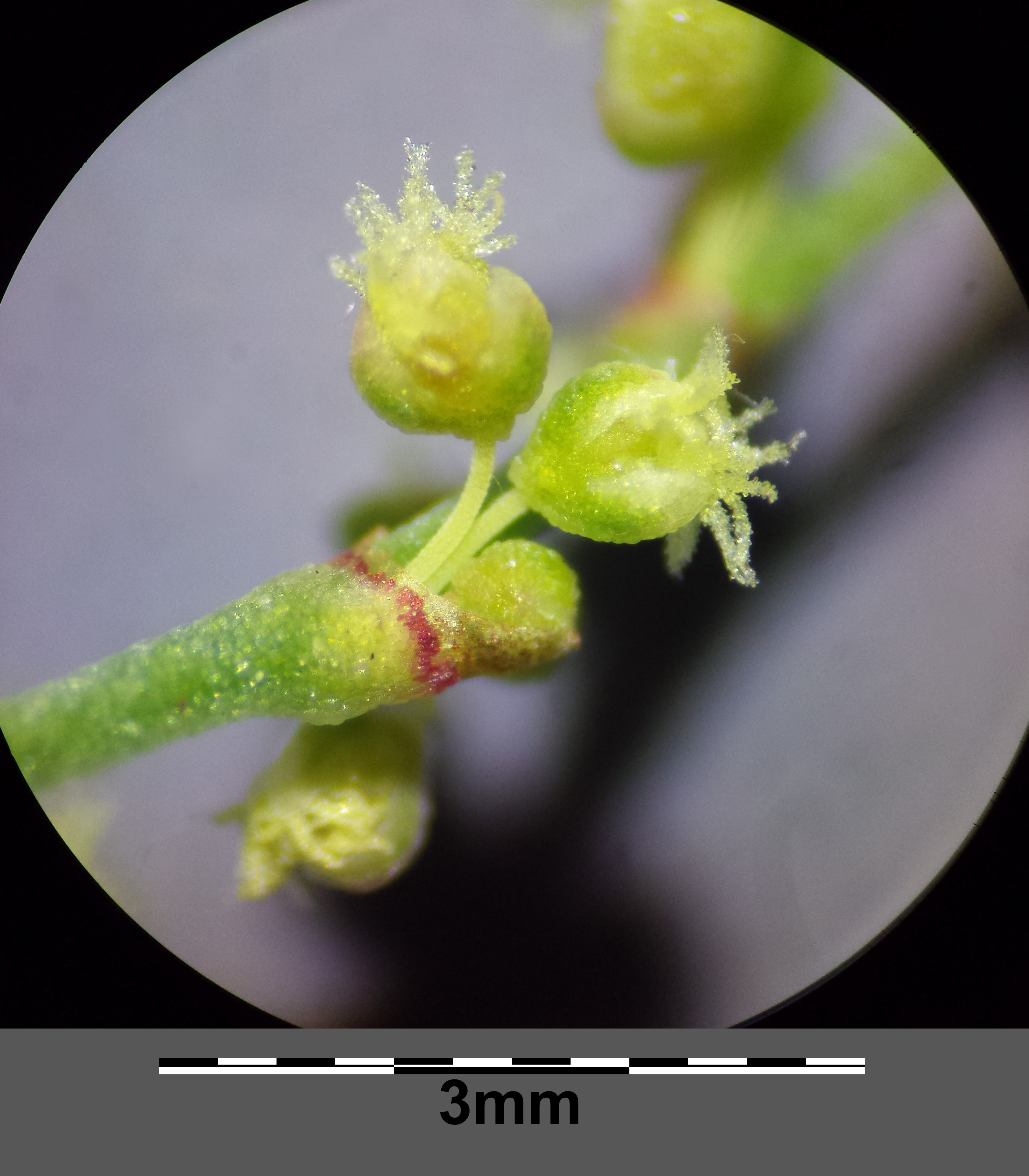 Inflorescence Taxonym: Rumex acetosella subsp. acetosella ss Fischer et al. EfÖLS 2008 ISBN 978-3-85474-187-9 Location: Bruckhaufen, Vienna-Floridsdorf - ca. 160 m a.s.l. Habitat: gap in surface